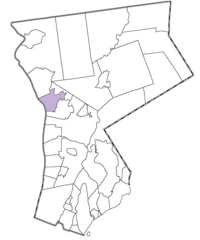 Map of Westchester highlighting Ossining